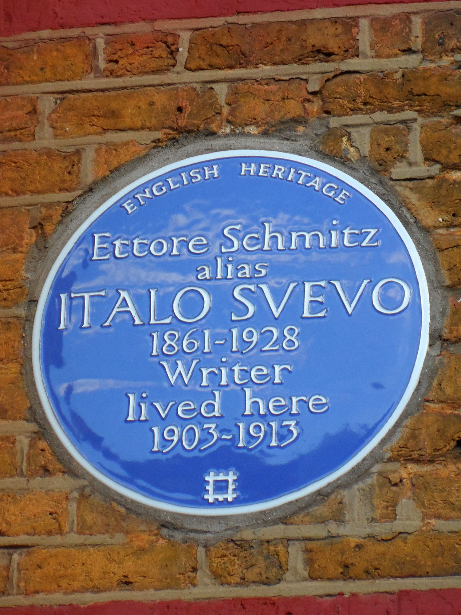 Blue plaque erected in 1999 by English Heritage at 67 Charlton Church Lane, Charlton, London SE7 7AB, London Borough of Greenwich